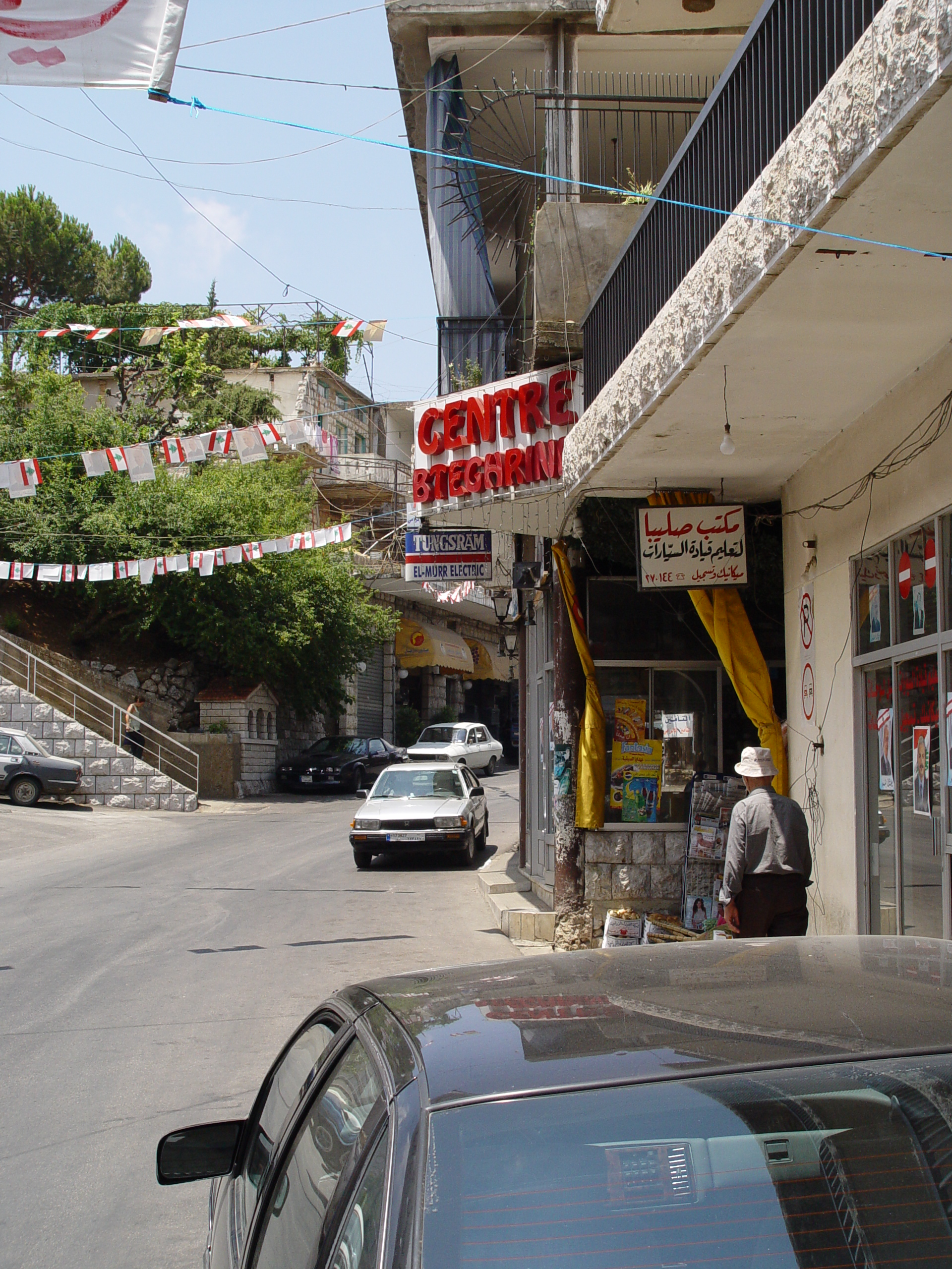 Image of Centre Bteghrine in downtown Bteghrine.